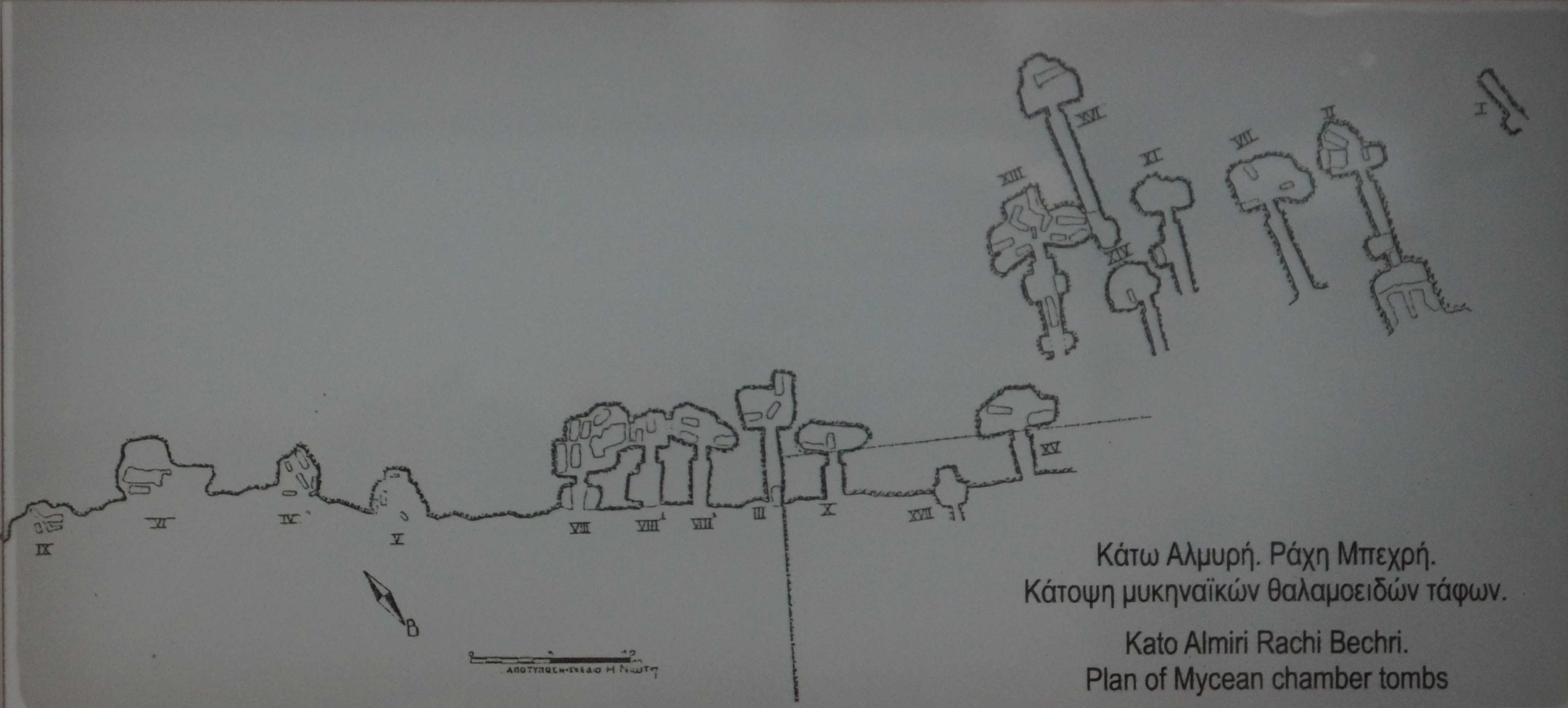 Isthmia, Corinthia, Greece: Archaeological Museum of Isthmia: Plan of the mycenaean cemetery of Kato Almyri.